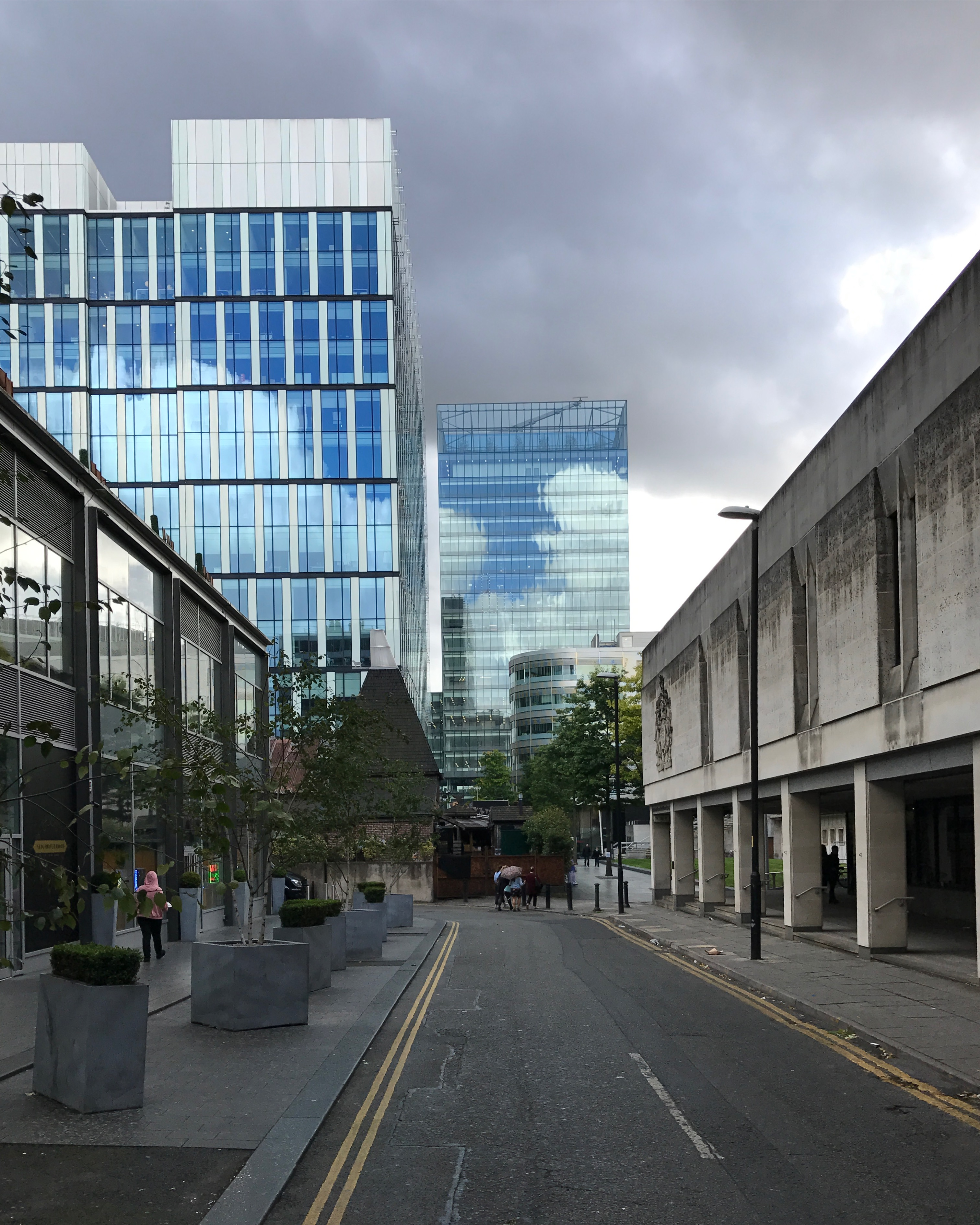 1 Spinningfields